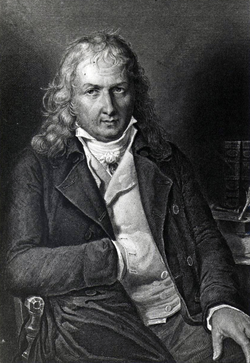 French writer and bоtanist Jacques-Henri Bernardin de Saint-Pierre, in 1806 publication of Paul et Virginie novel.